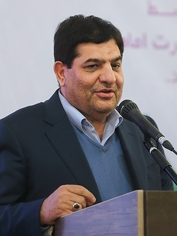 Mohammad Mokhber